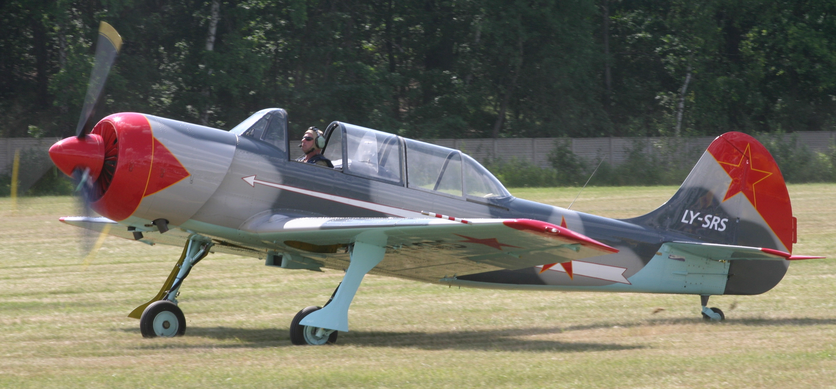 Jakowlew Jak-52 during Góraszka Air Picnic 2007